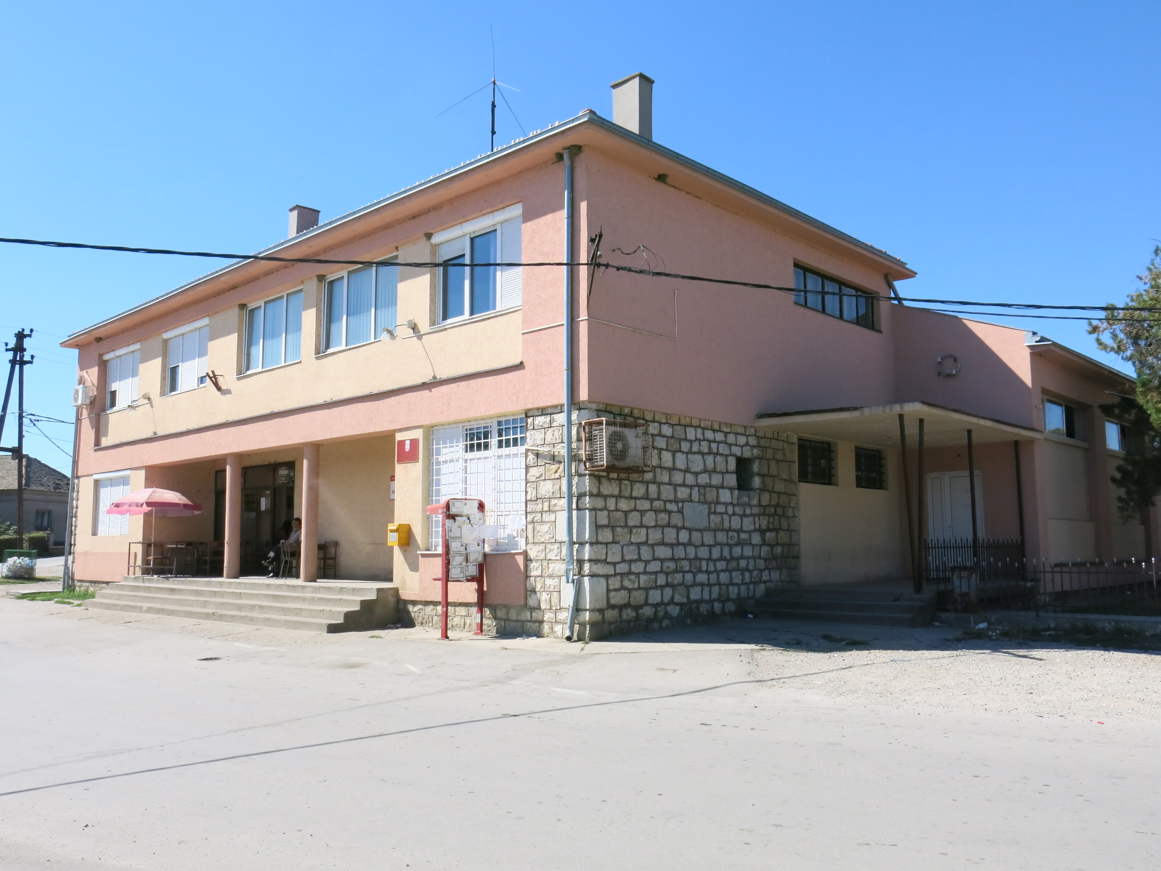 Udovice, Ambulatory facility and local community office